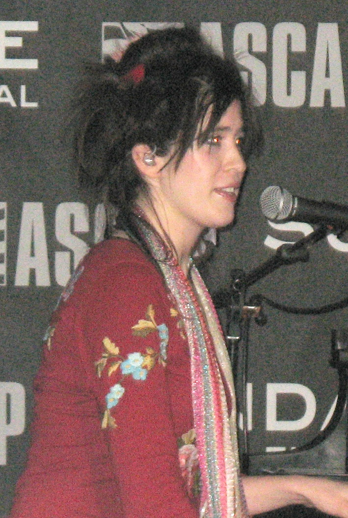 Imogen Heap performs at the Music Cafe (in the Star Bar) during the Sundance Film Festival.